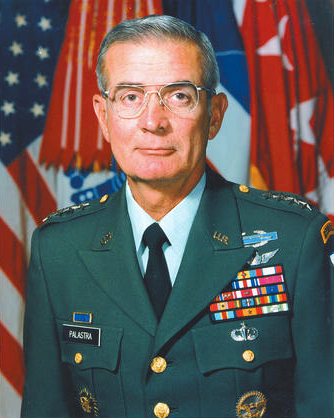 Portrait of General Joseph T. Palastra, Jr.